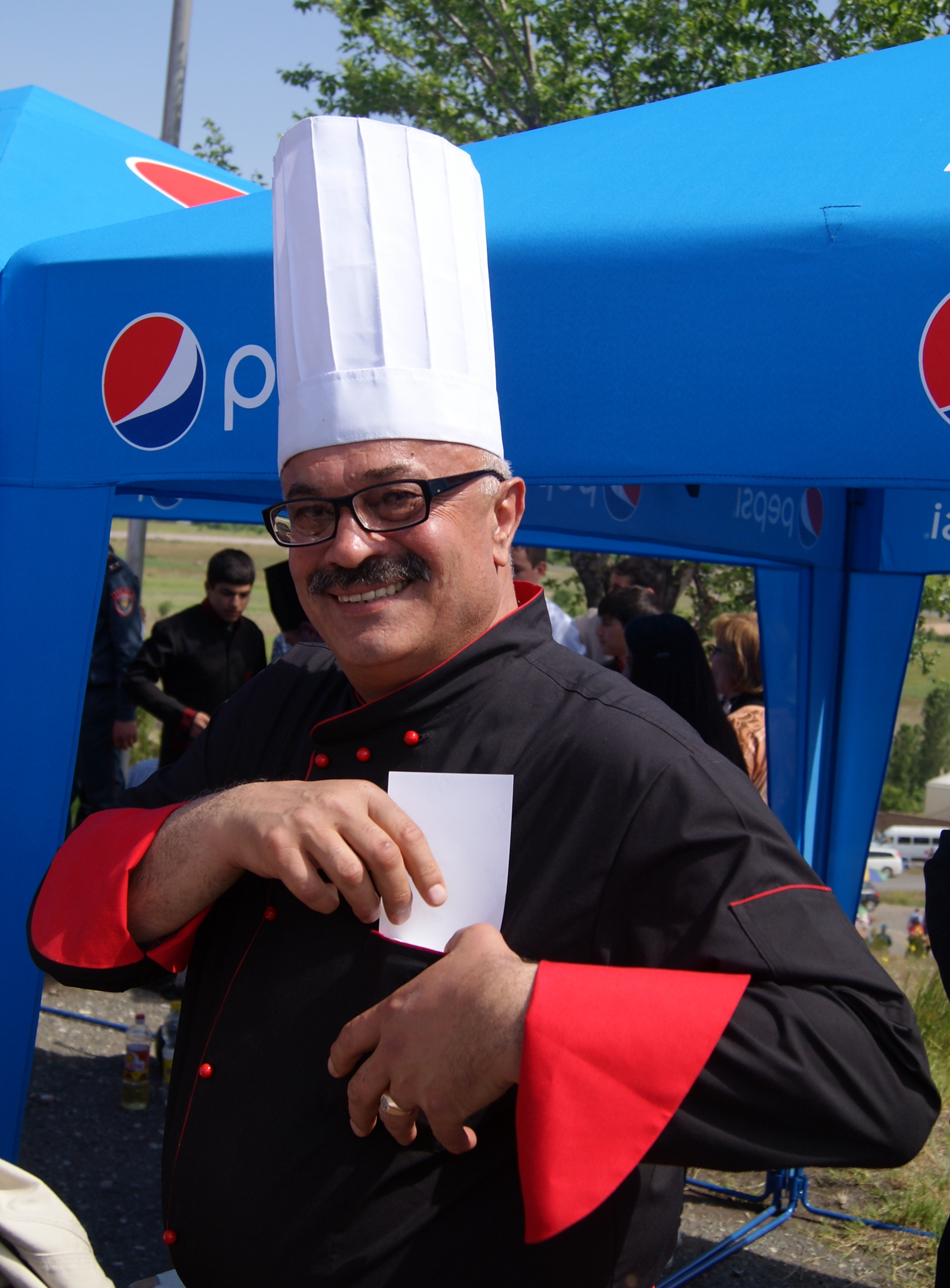 Sedrak Mamulyan during Dolma festival at Musaler